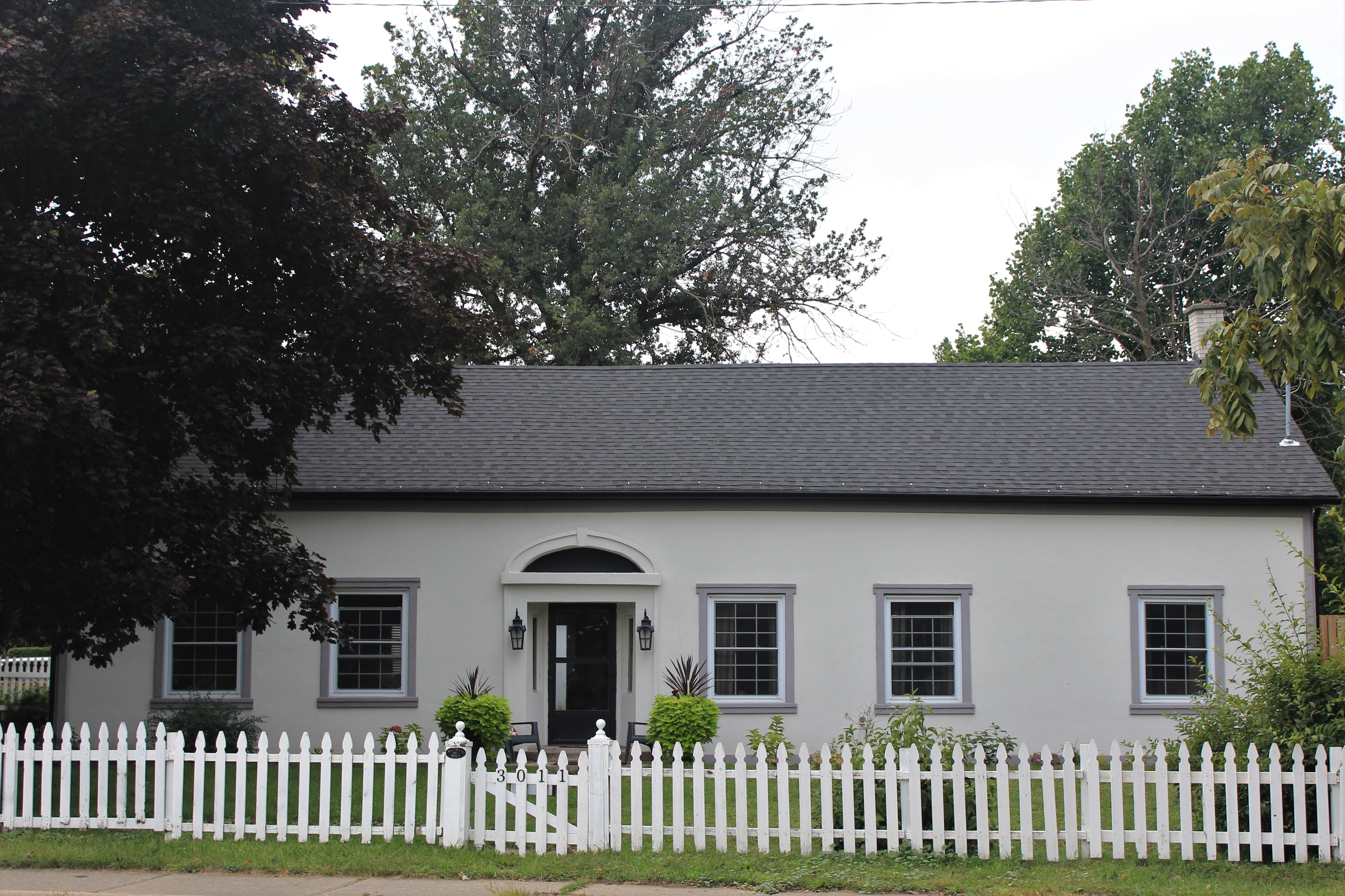 Originally contstructed in 1796, at the corner of Church's Lane and Portage Road in Niagara Falls, Ontario. Right across the street from another heritage house 'Church Residence'.